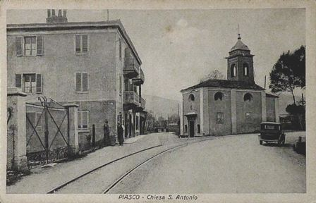 Piasco, S. Antonio